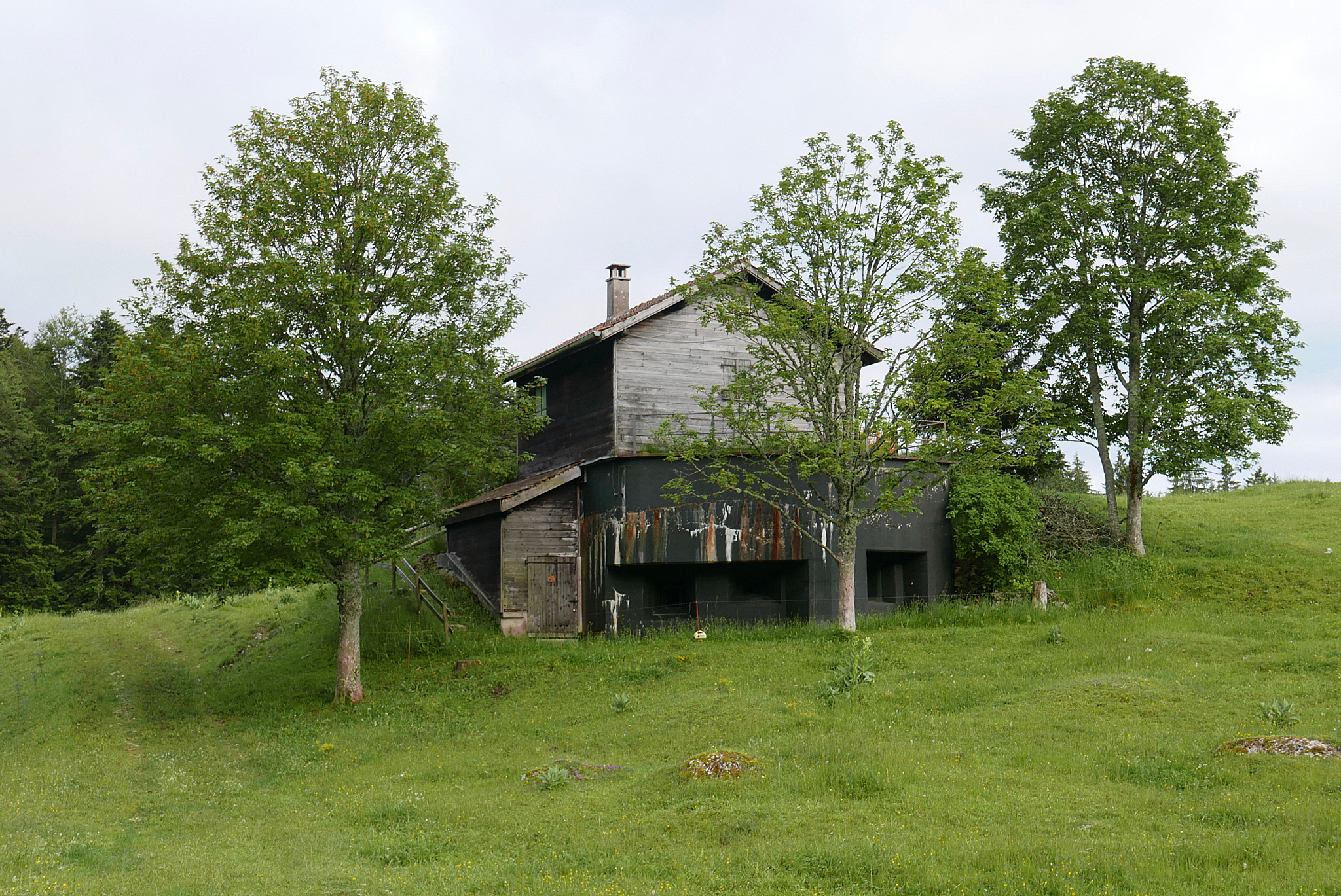 «St-George Est» (A 642) infantry bunker.